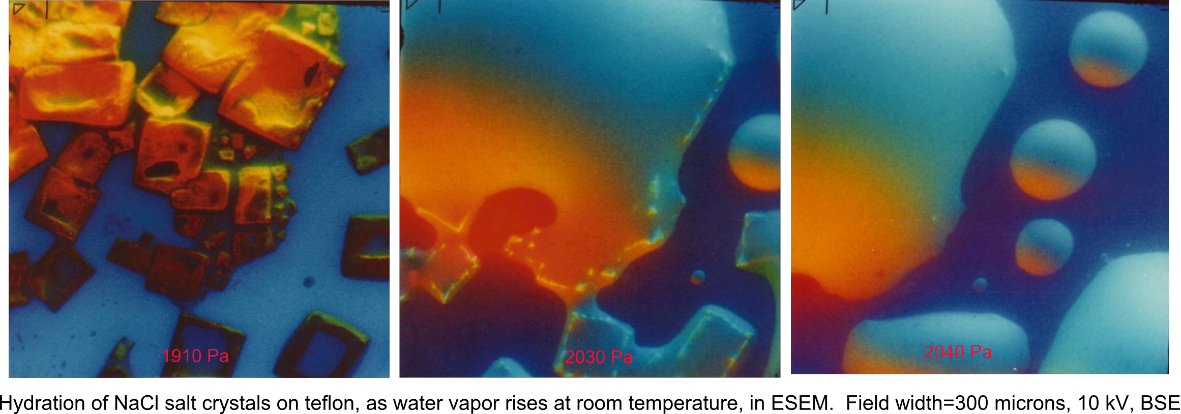 Hydration of NaCl salt crystals on Teflon, as water vapor pressure rises, at room temperature, in an ESEM by the use of two symmetrical plastic scintillating backscattered electron detectors. Field width=300 microns, 10 kV. Raw signals without post-processing to remove noise